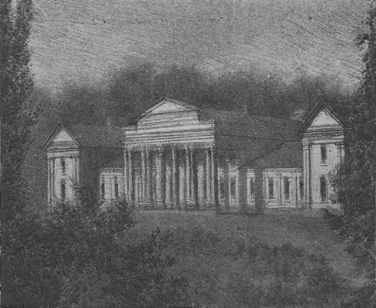 Tyškievič Palace in Łahojsk